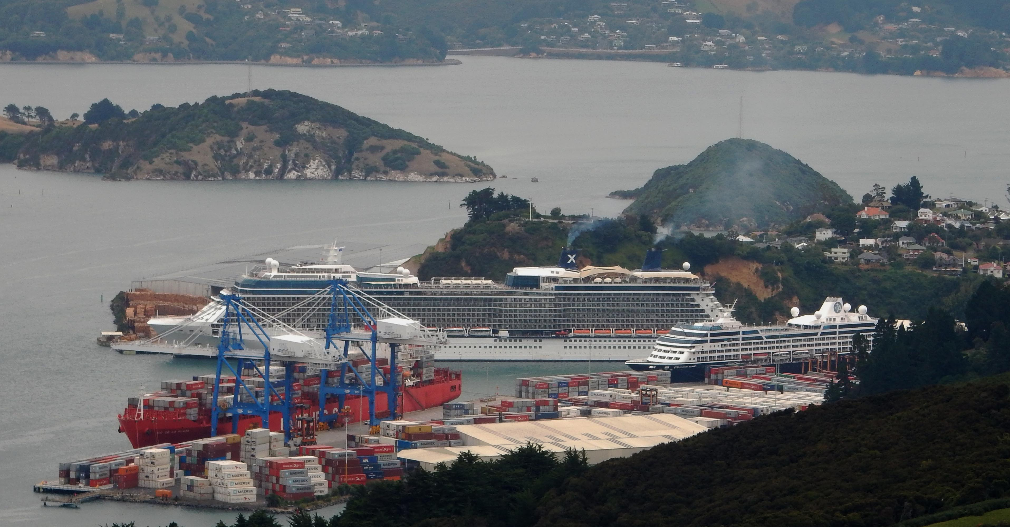 These two cruise ships have just left Port Chalmers (15 March 2020) after the NZ Government announced that passenger cruise liners can not berth at any New Zealand port until the Covid 19 Pandemic is resolved or over. It will be a long time until we see cruise shipping again at Port Chalmers. Trading vessels are not affected.